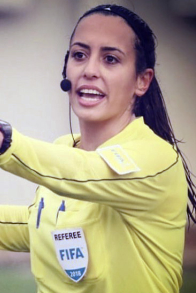 2018 Lebanon Women's FA Cup Final - Bhamdoun Stadium